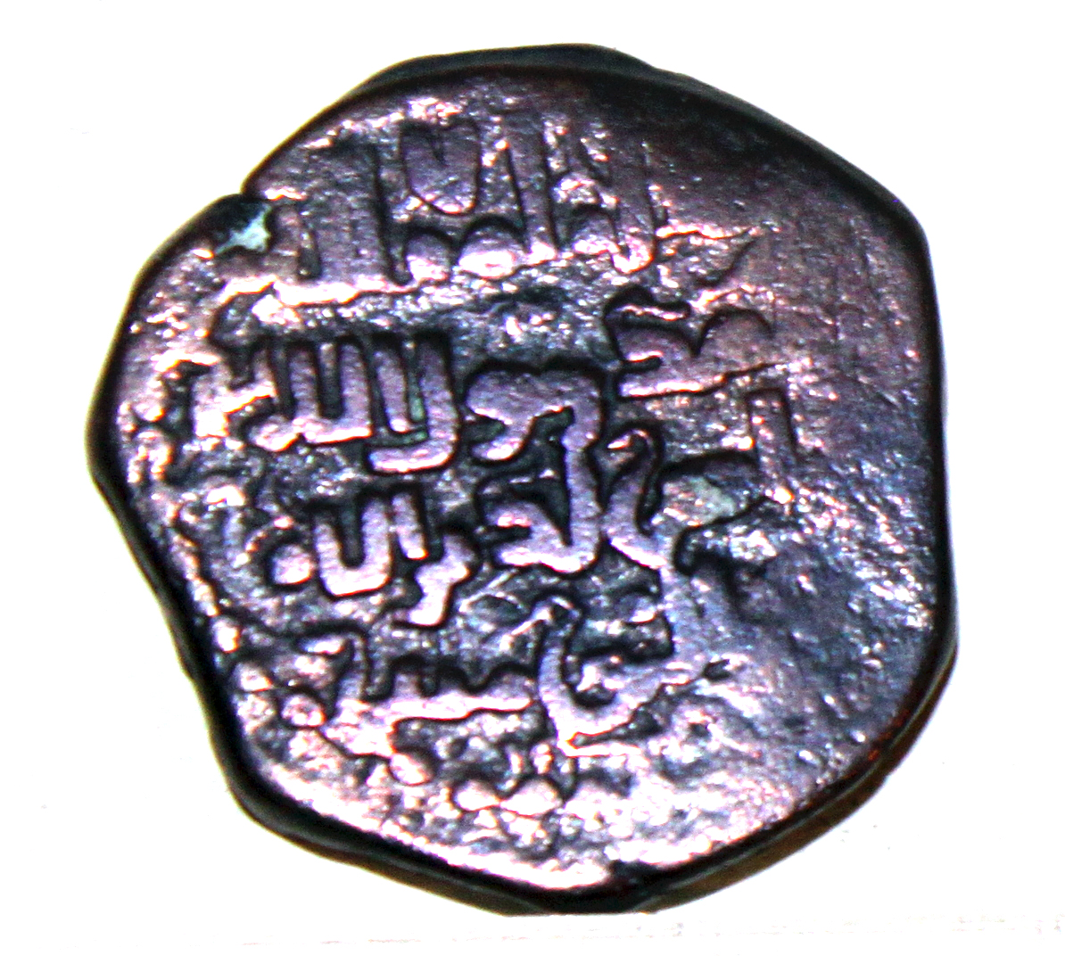 Əbu Bəkr misr dirhəm